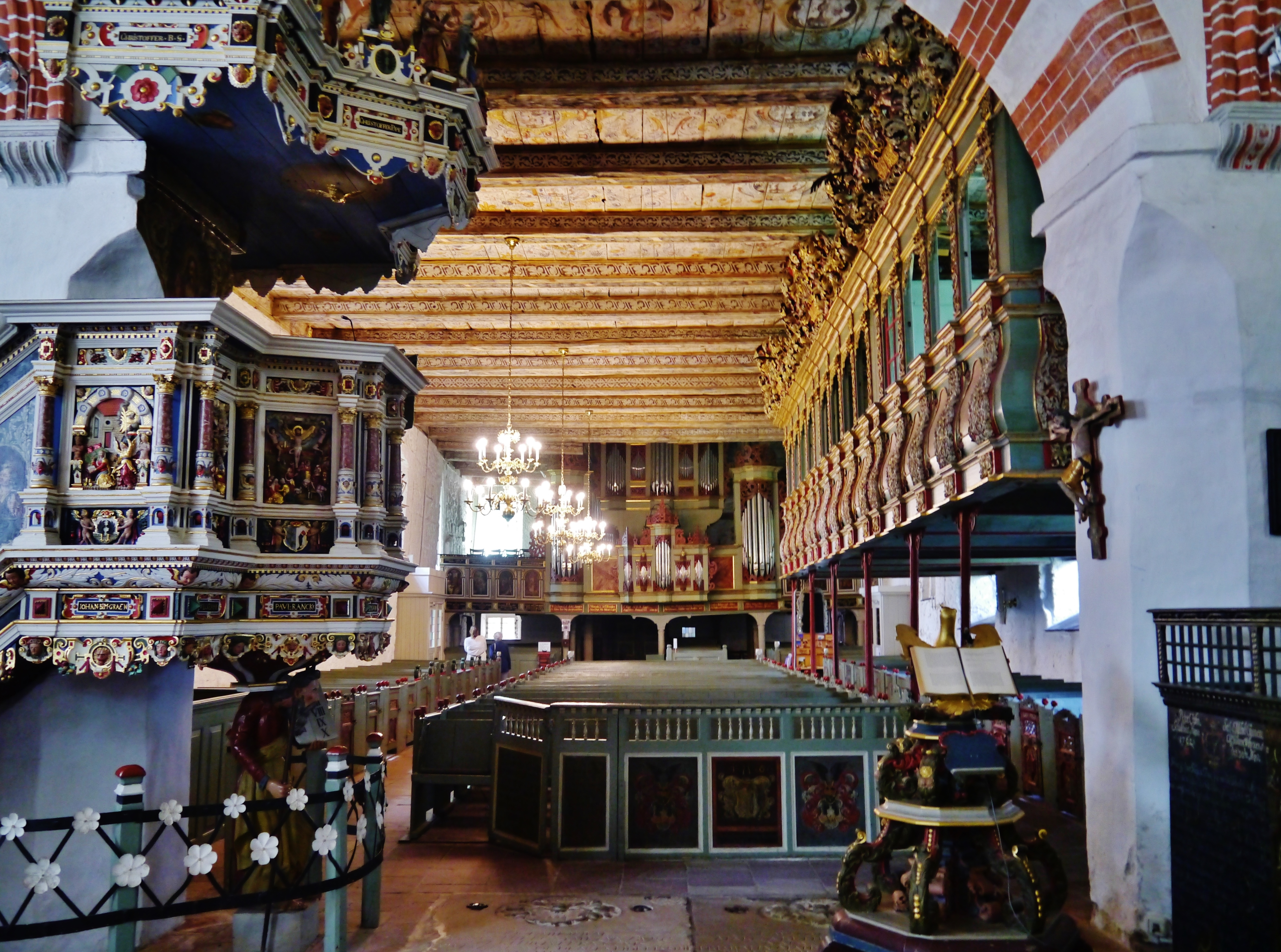 Nave of the Church of St. James, Lüdigwörth, Borough of Cuxhaven, Federal State of Lower Saxony, Germany